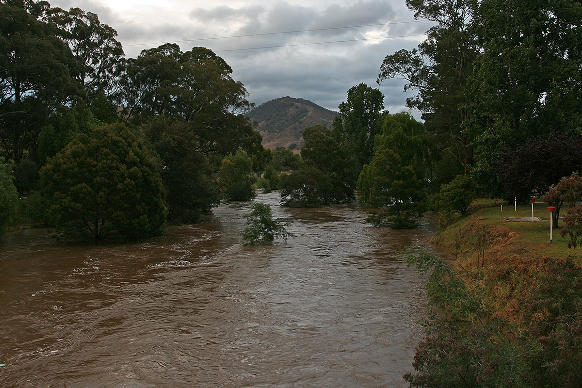 Tambo River at the town of Swifts Creek in a minor flood in November 2008. Image looking north towards the confluence of the Tambo River and Swifts Creek in the direction of Omeo. At image right is the Swifts Creek Caravan Park. Swifts Creek, Victoria, Australia.